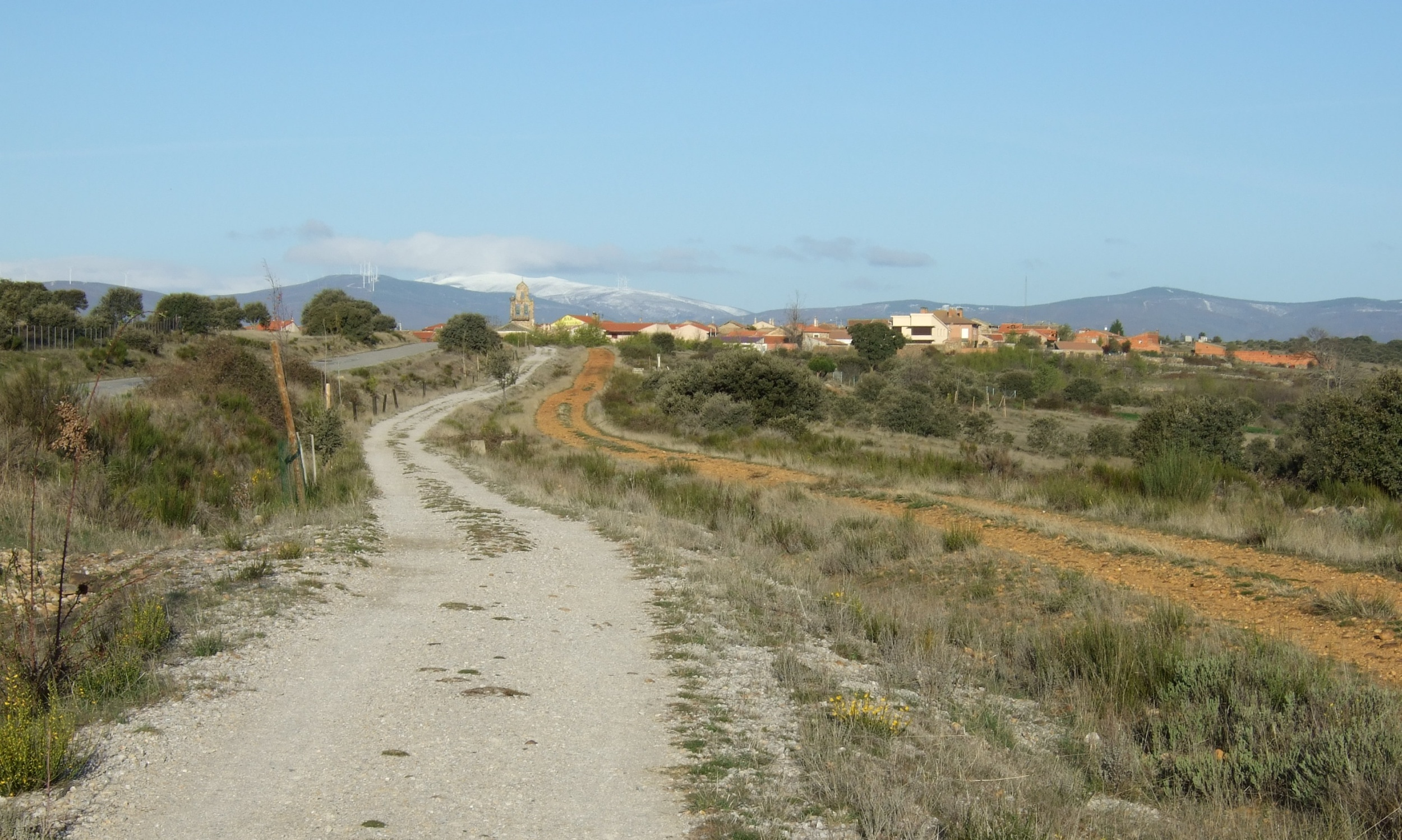 Santa Catalina de Somoza - camino frances